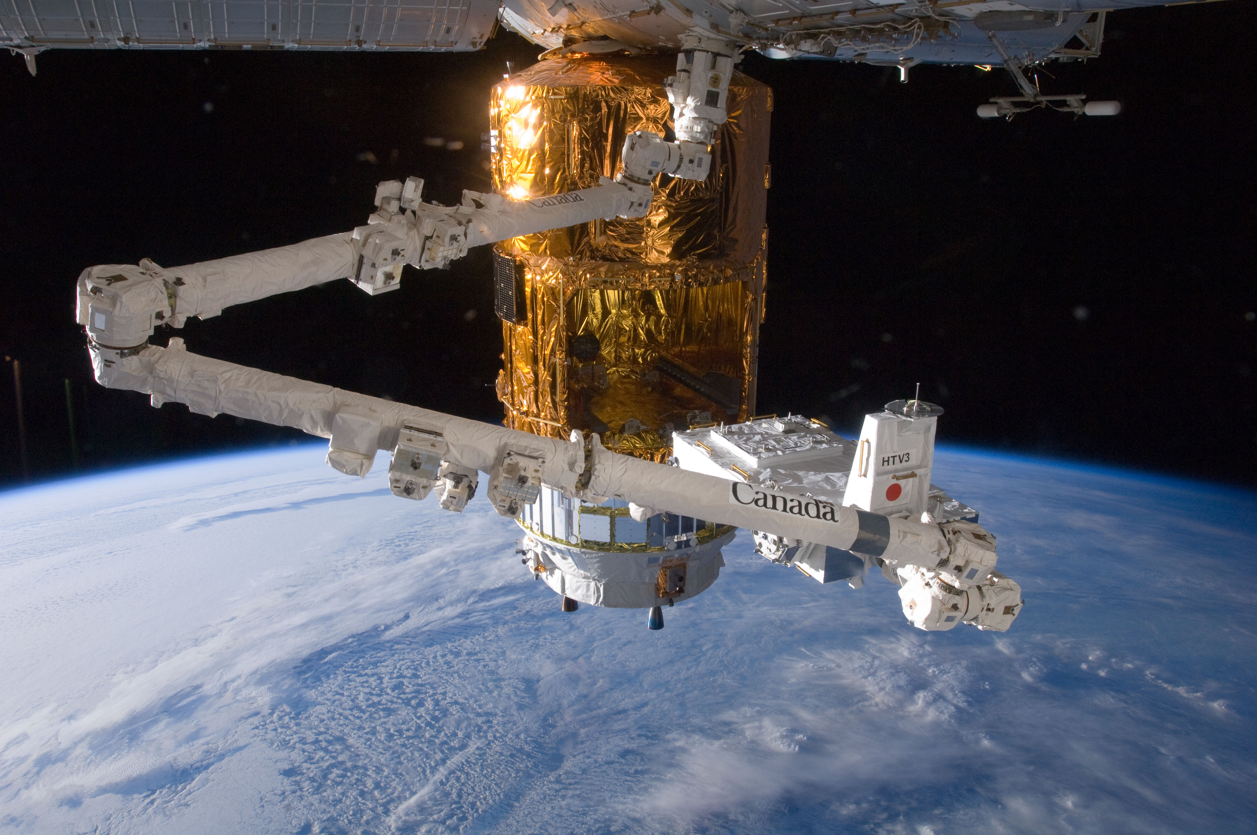 In the grasp of the International Space Station's robotic Canadarm2, the HTV-3 Exposed Pallet is moved for installation on the Japan Aerospace Exploration Agency (JAXA) H-II Transfer Vehicle (HTV-3) currently docked to the space station. Earth's horizon and the blackness of space provide the backdrop for the scene.